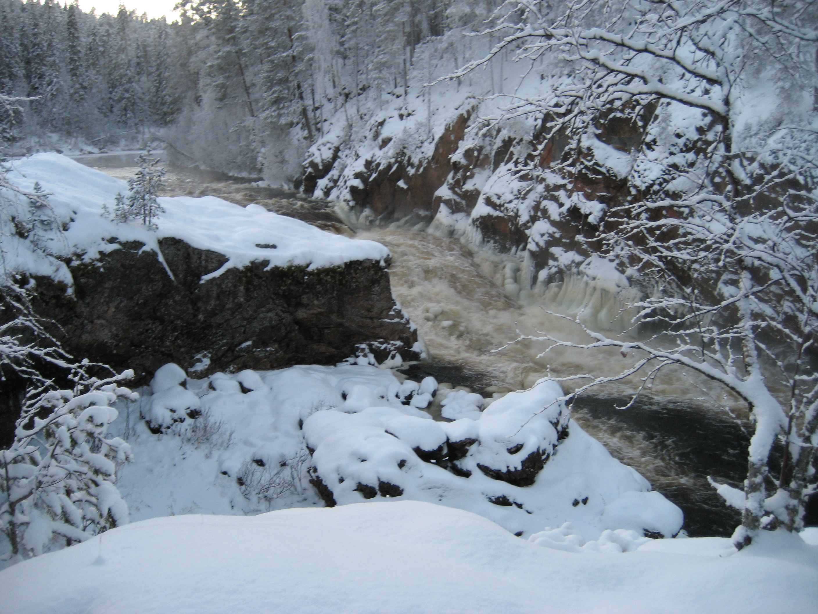 Kiutaköngäs rapids at the Oulankajoki river, Oulanka National Park, Kuusamo, Finland, looking west.